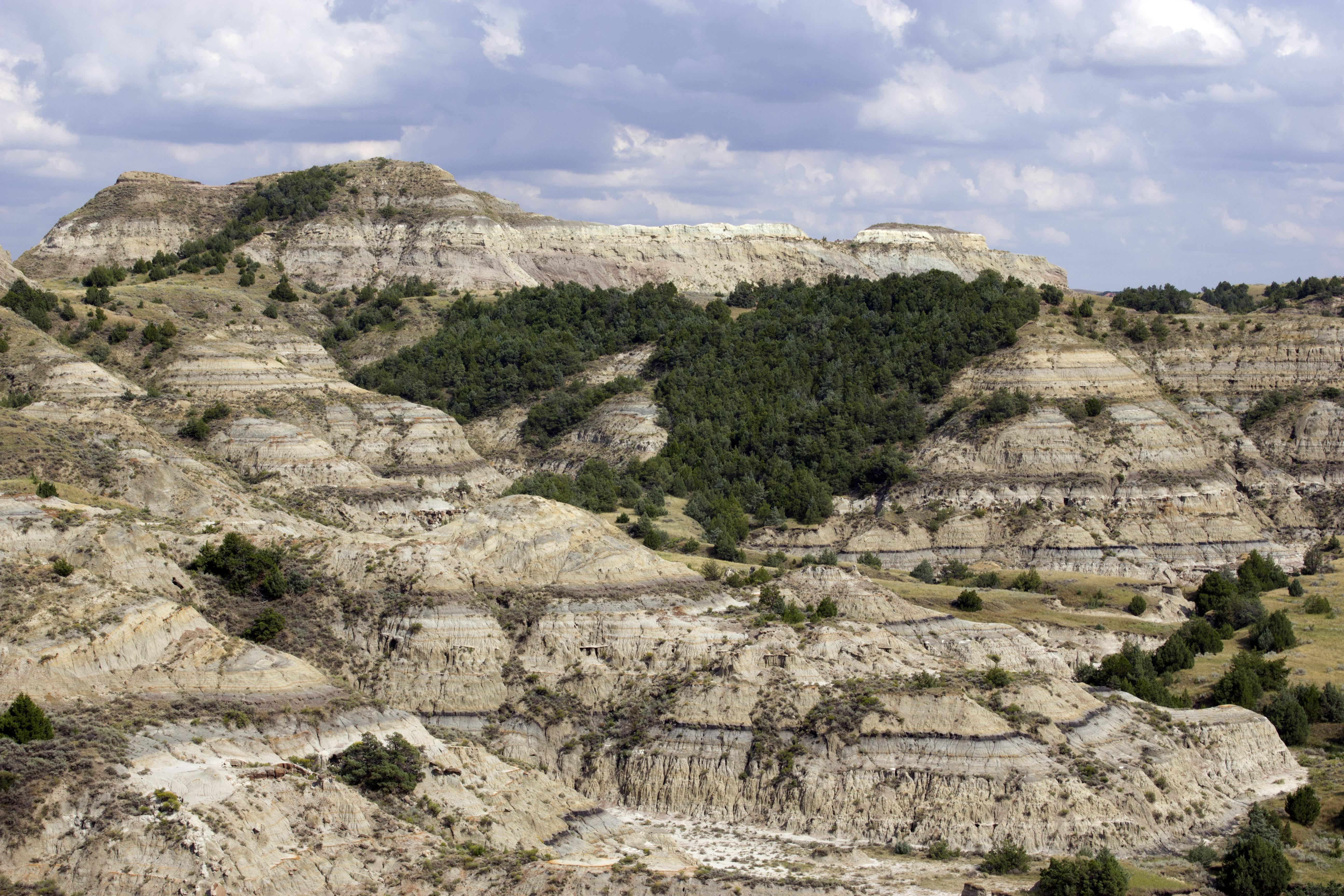 A view at Theodore Roosevelt National Park, a site managed by the National Park Service in North Dakota.